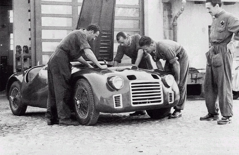 The 1947 Ferrari 125 S s/n 01C estimated 28 September 1947, looks same as in its "final design" (before it was scrapped and/or converted into 010i) [1] having had engine upgrade to 159 and a slight change in the body. At the right: Looks like Aristide Govoni, one of the main engineers. This picture is most likely taken by Corrado Millanta, since he took a "sister picture" at the same photoshoot event.